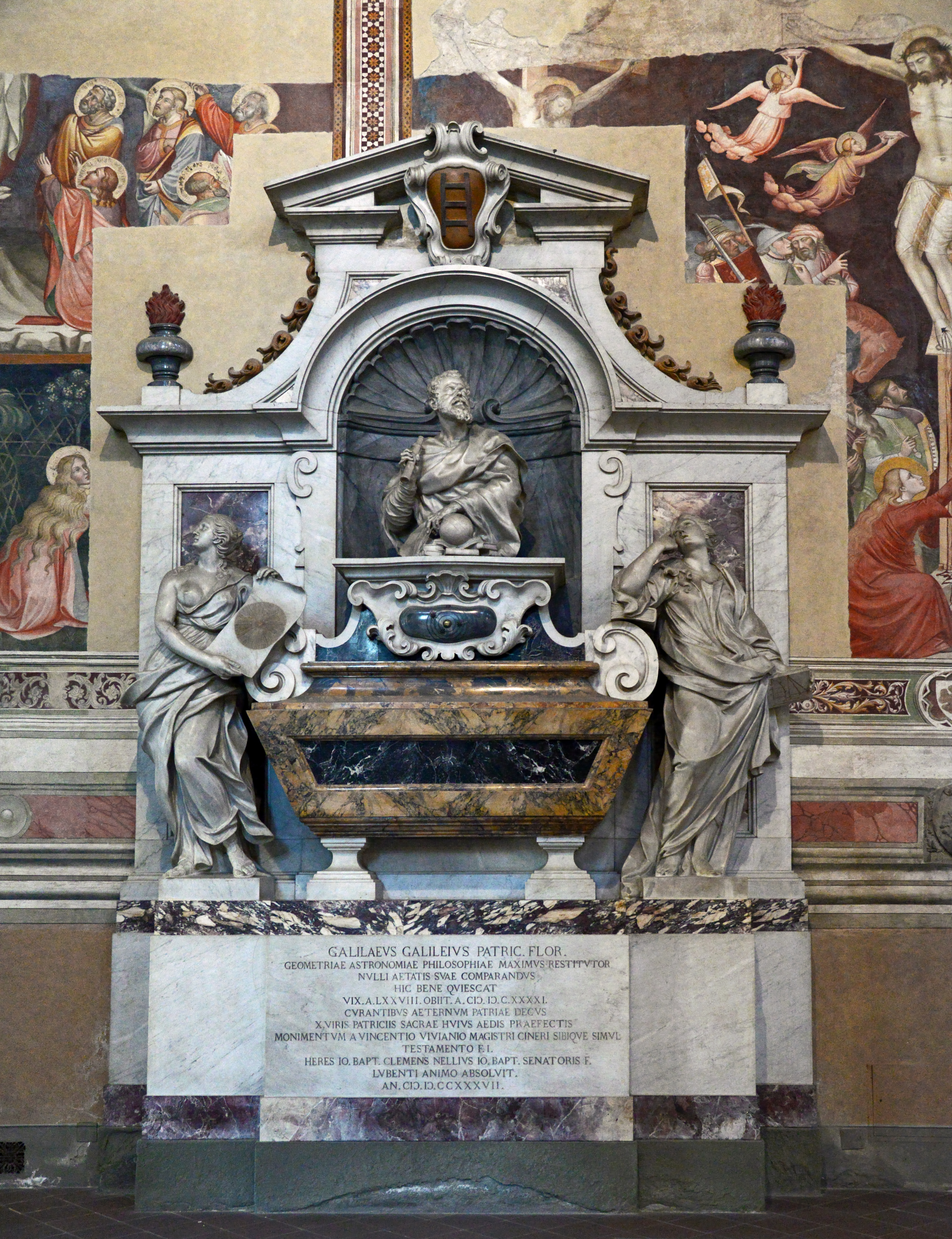 The Tomb of Galileo Galilei in the Basilica Santa Croce, Florence. Italy